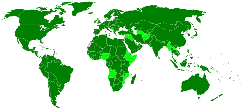 dark green - IMF members; light green - IMF members not accepting obligations of Article VIII, Sections 2, 3, and 4 of the Articles of Agreement.